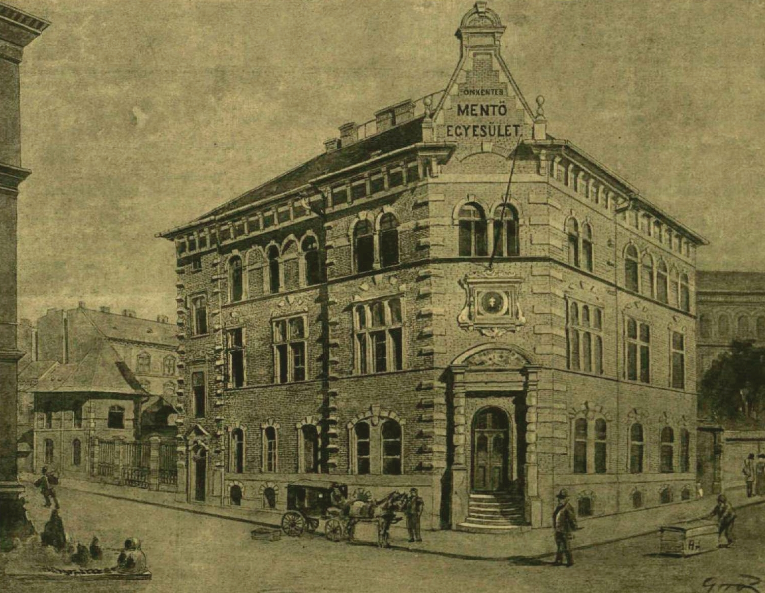 Lajos Goró illustration.